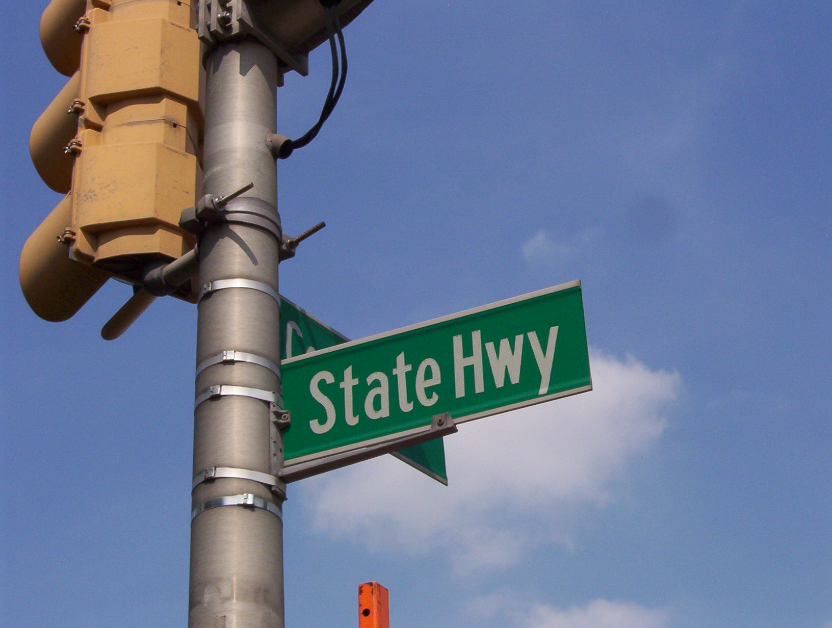 Route 139. Present day 'State Highway' sign at Central Avenue, Jersey City. Photo by TheImpossibleManX 09-2006